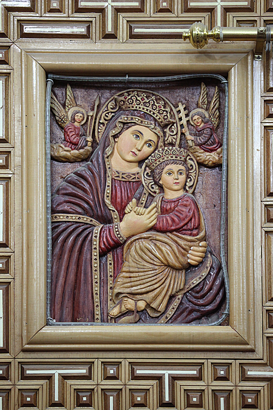 Icon in the Church of the Holy Virgin, Sohag, Egypt